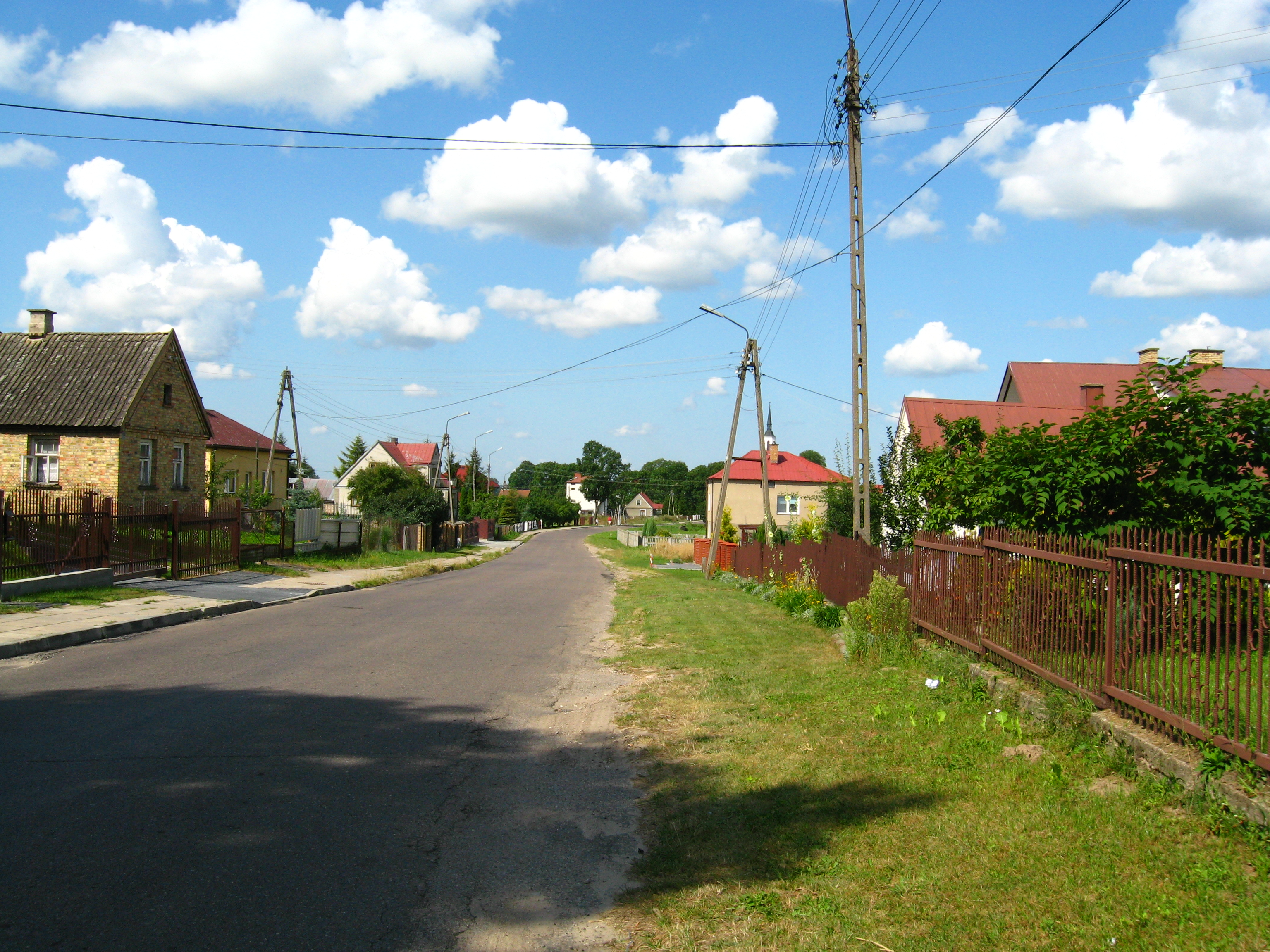 Ogrodniki